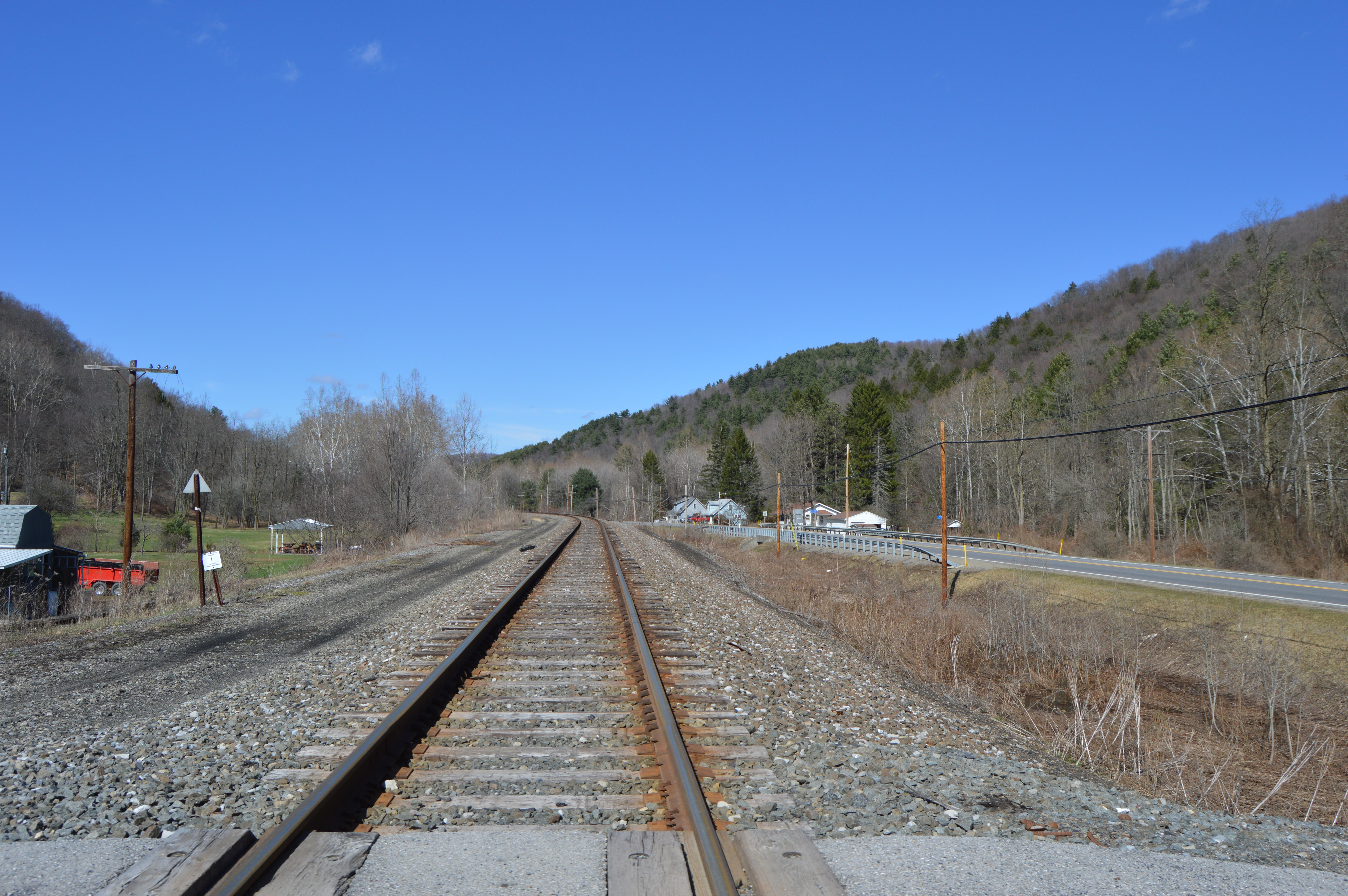 Looking north along rail lines from Four Mile Road in far eastern Shippen Township, Cameron County, Pennsylvania, United States. At right, Pennsylvania Route 155 runs parallel to the rail line.